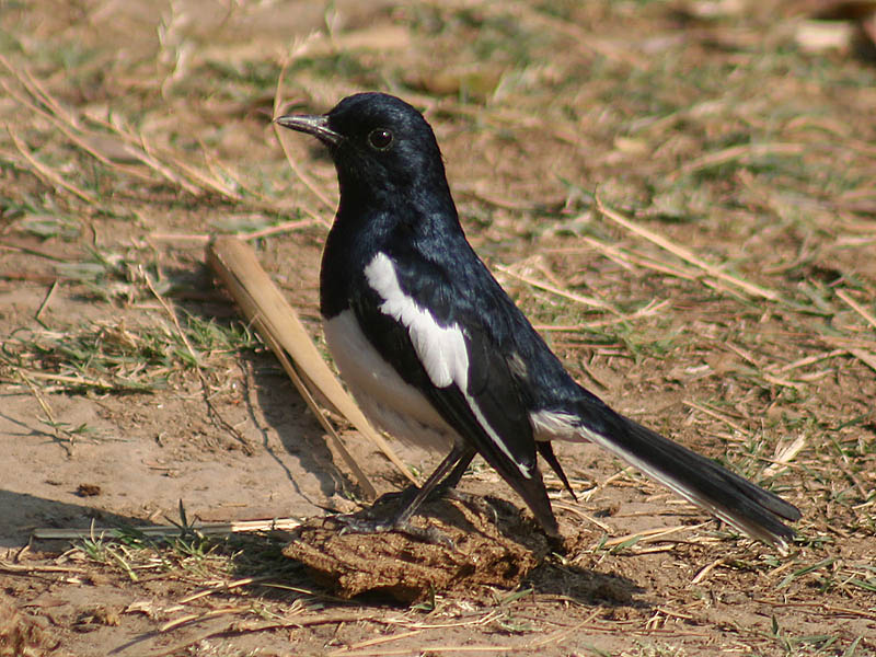 Oriental Magpie Robin (Copsychus saularis) at/ near Hodal in Faridabad District of Haryana, India.